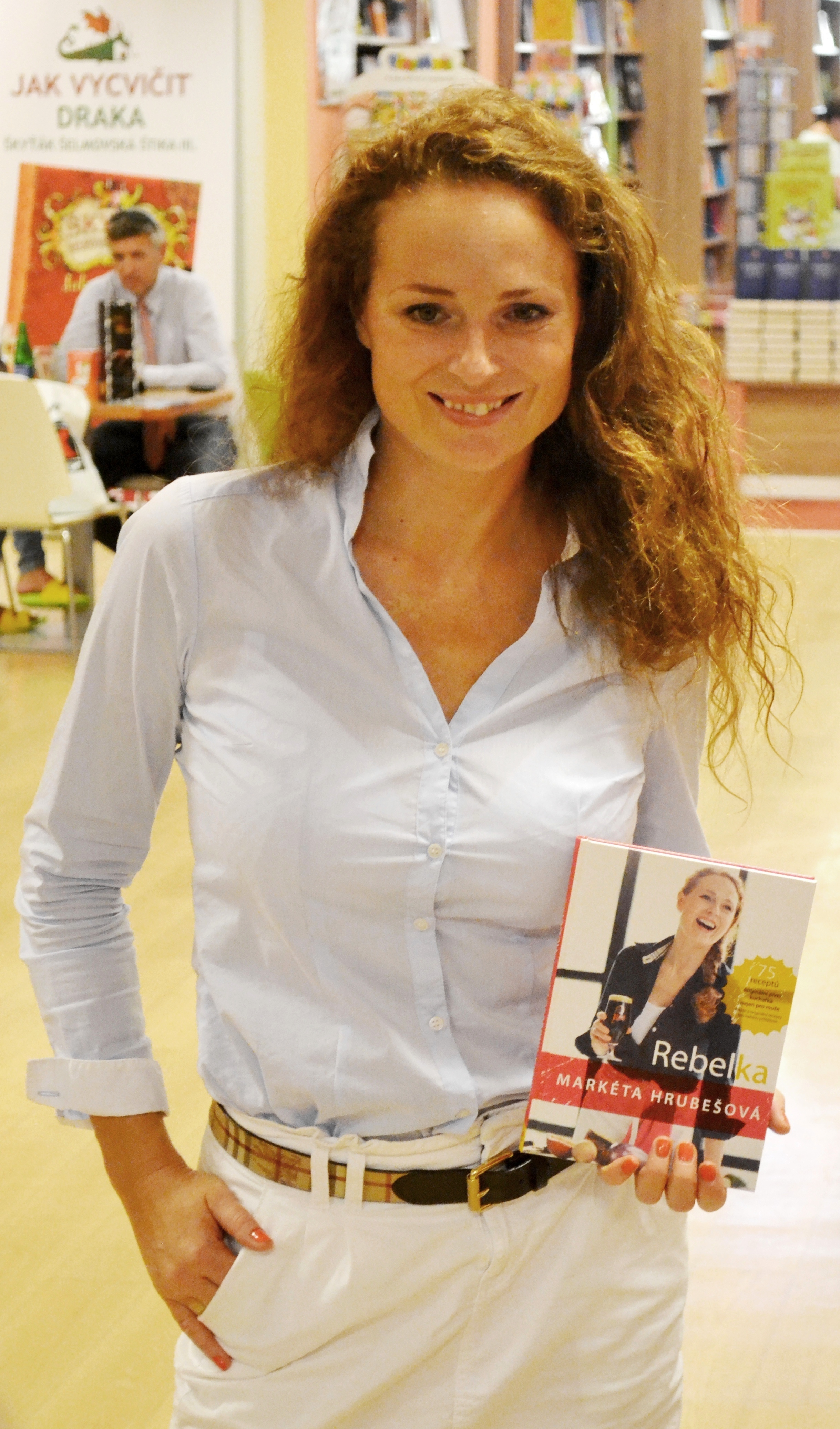 Markéta Hrubešová, Czech actress